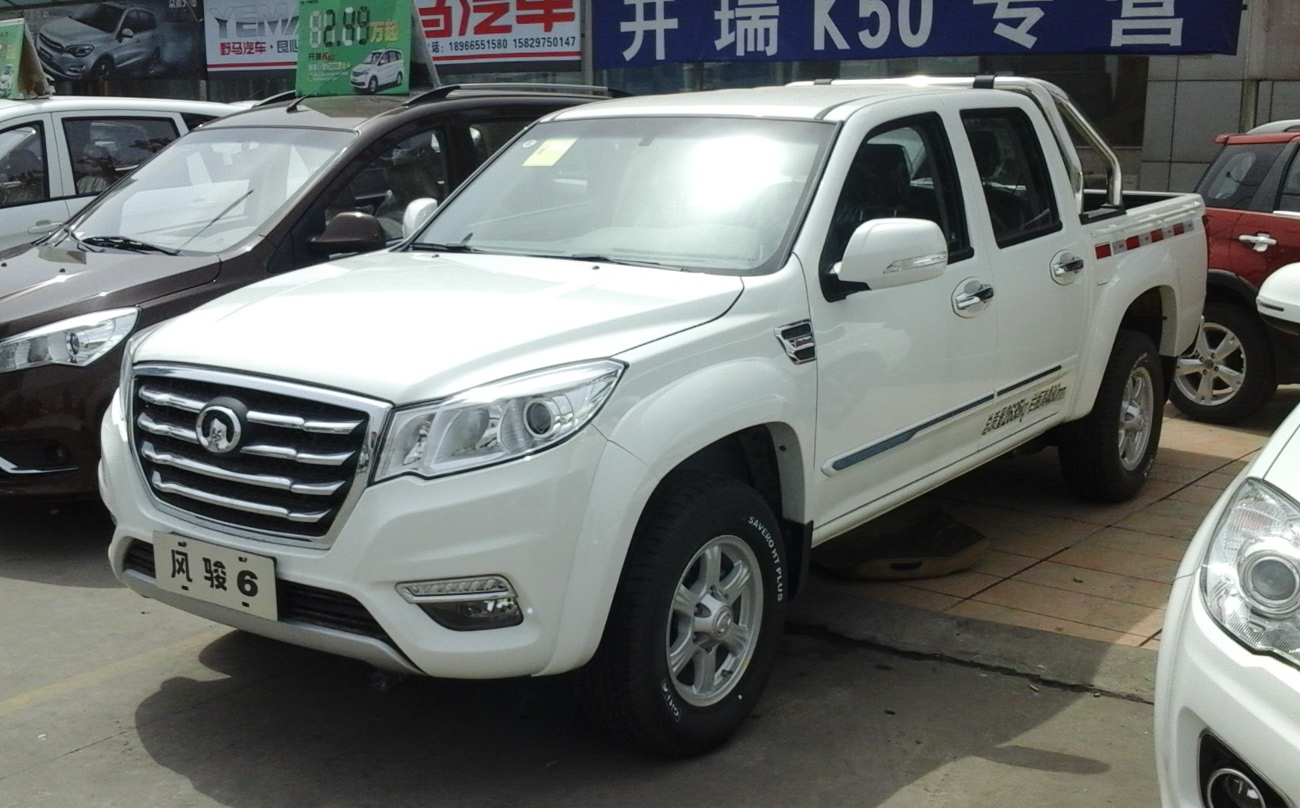 Great Wall Wingle 6 photographed in Xi'an, Shaanxi province, China.